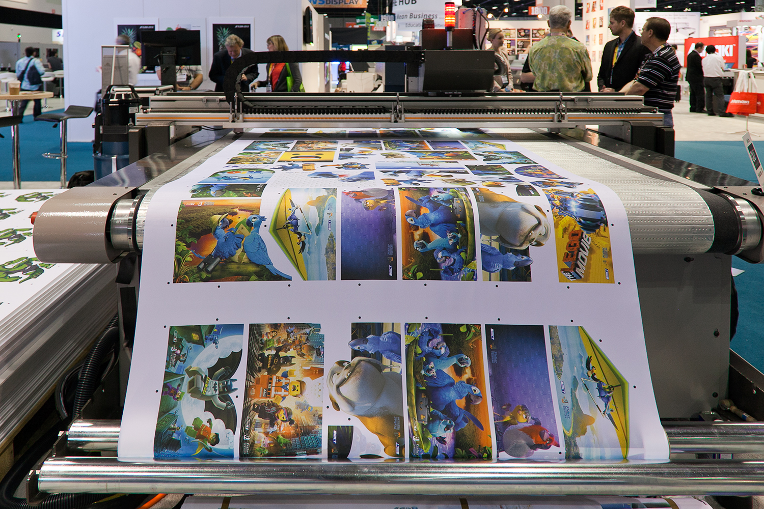 Large format digital printer